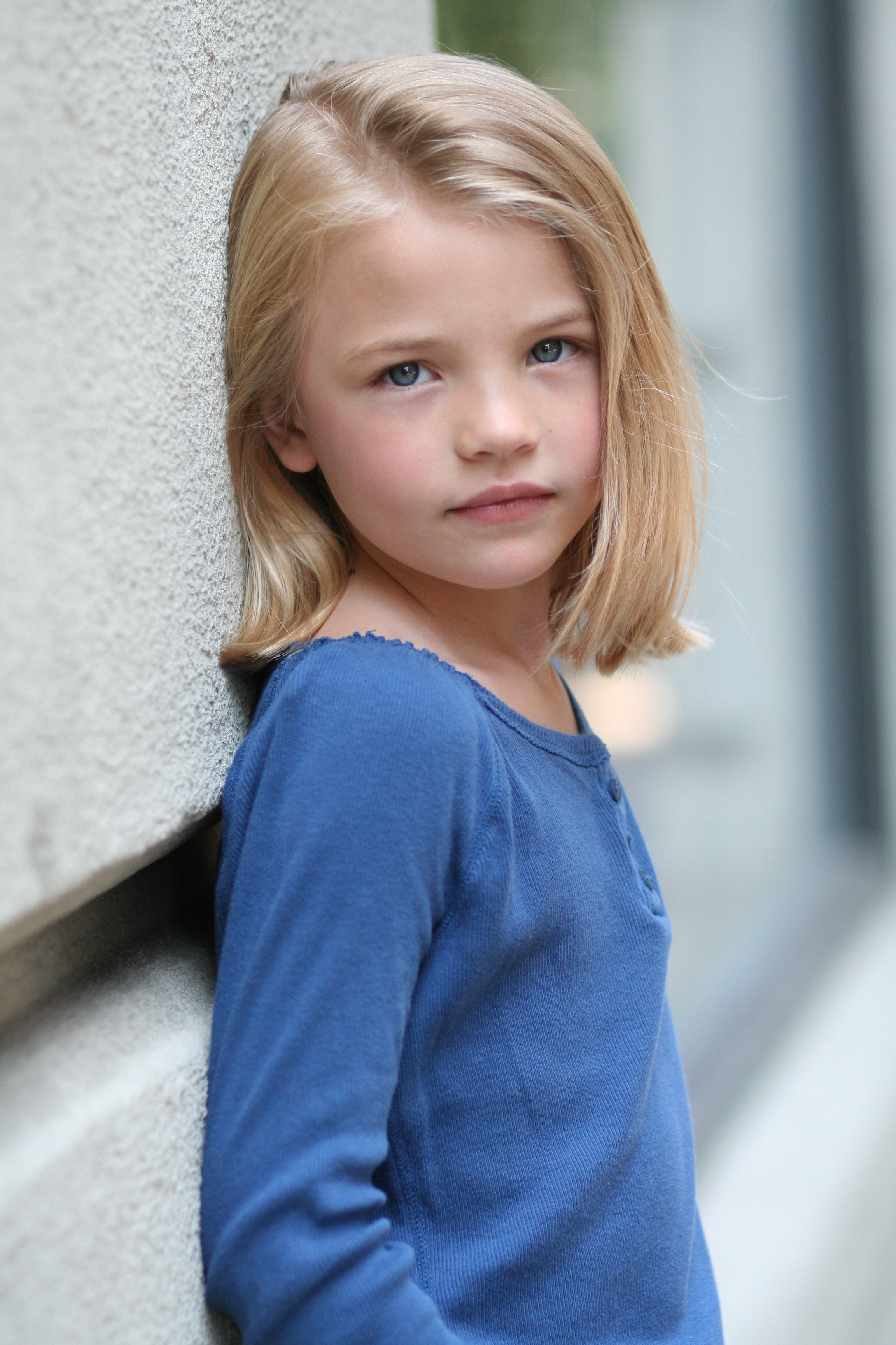 Lucy Merriam, child model and actress, known for her role as Emma Lavery on All My Children.